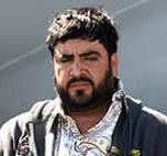 Alfredo BELTRAN LEYVA. DOB: 21 Jan 1971; Alt. DOB: 15 Feb 1951. POB: La Palma, Badiriguato, Sinaloa, Mexico.